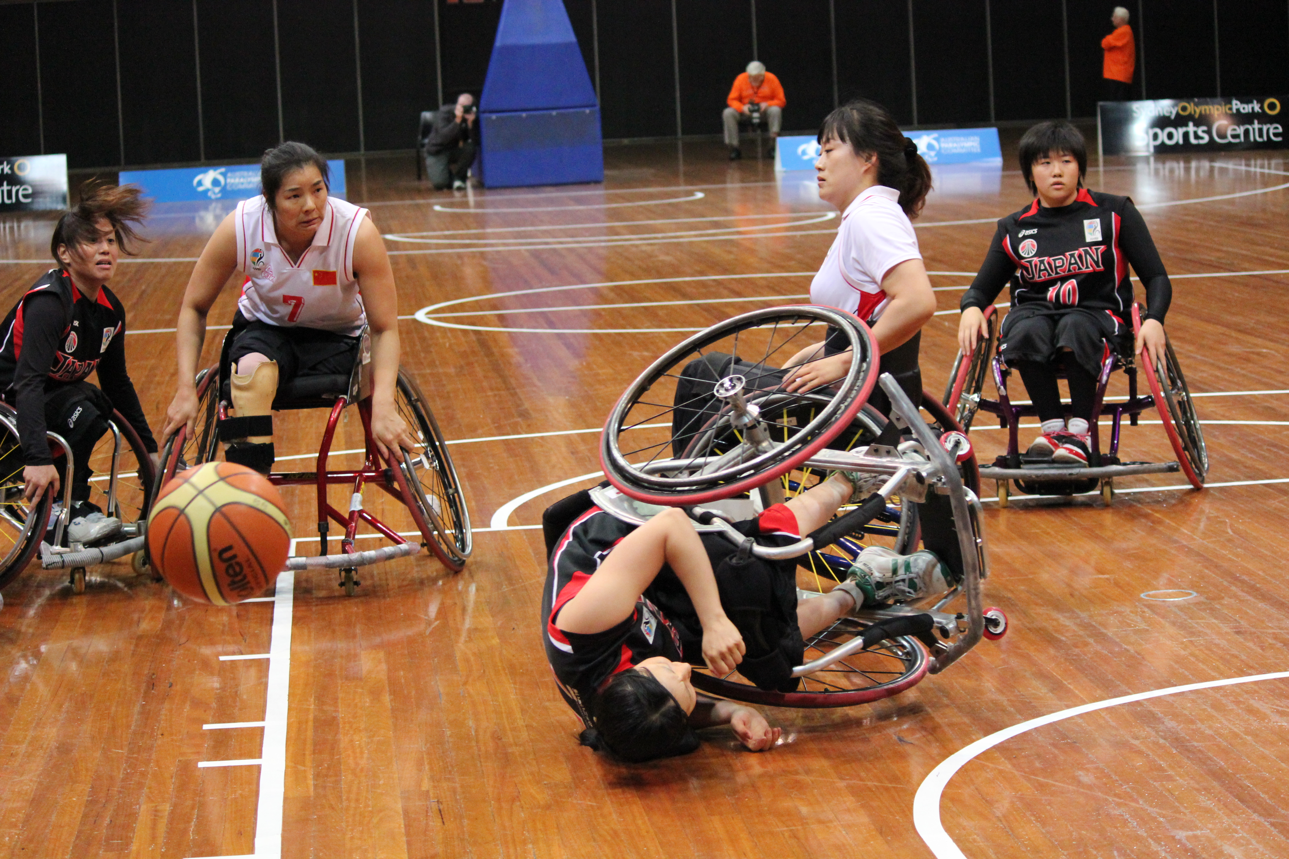 China won Roller & Gilders World Challenge 53-37. no. 10 for Japan is Mayo Hagino. No. 7 for China is Fu Yongqing.